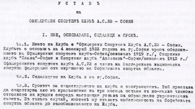 AS-23's statute